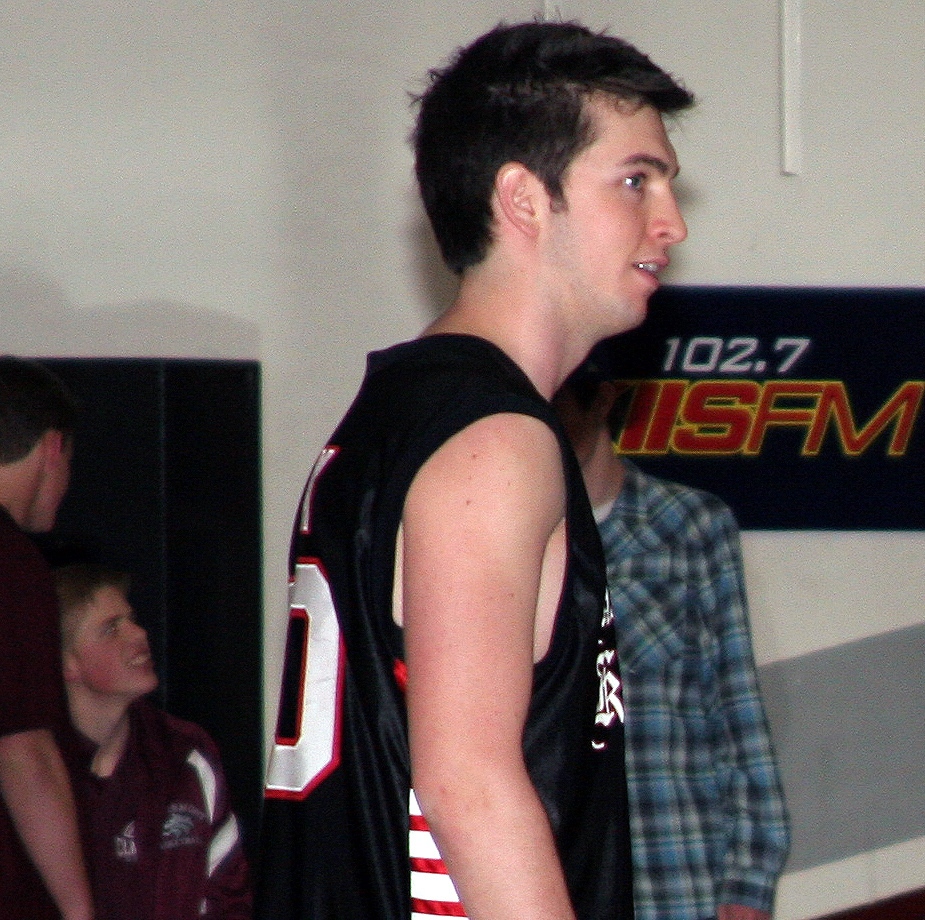 Paparazzo Presents a photo of actor Nicholas Braun making an appearance on the Hollywood Knights celebrity basketball team in Claremont, California on January 30, 2010.